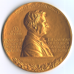 Scanned image of the 1924 Edison Medal awarded to my great grandfather John White Howell, inherited by me in 1979.